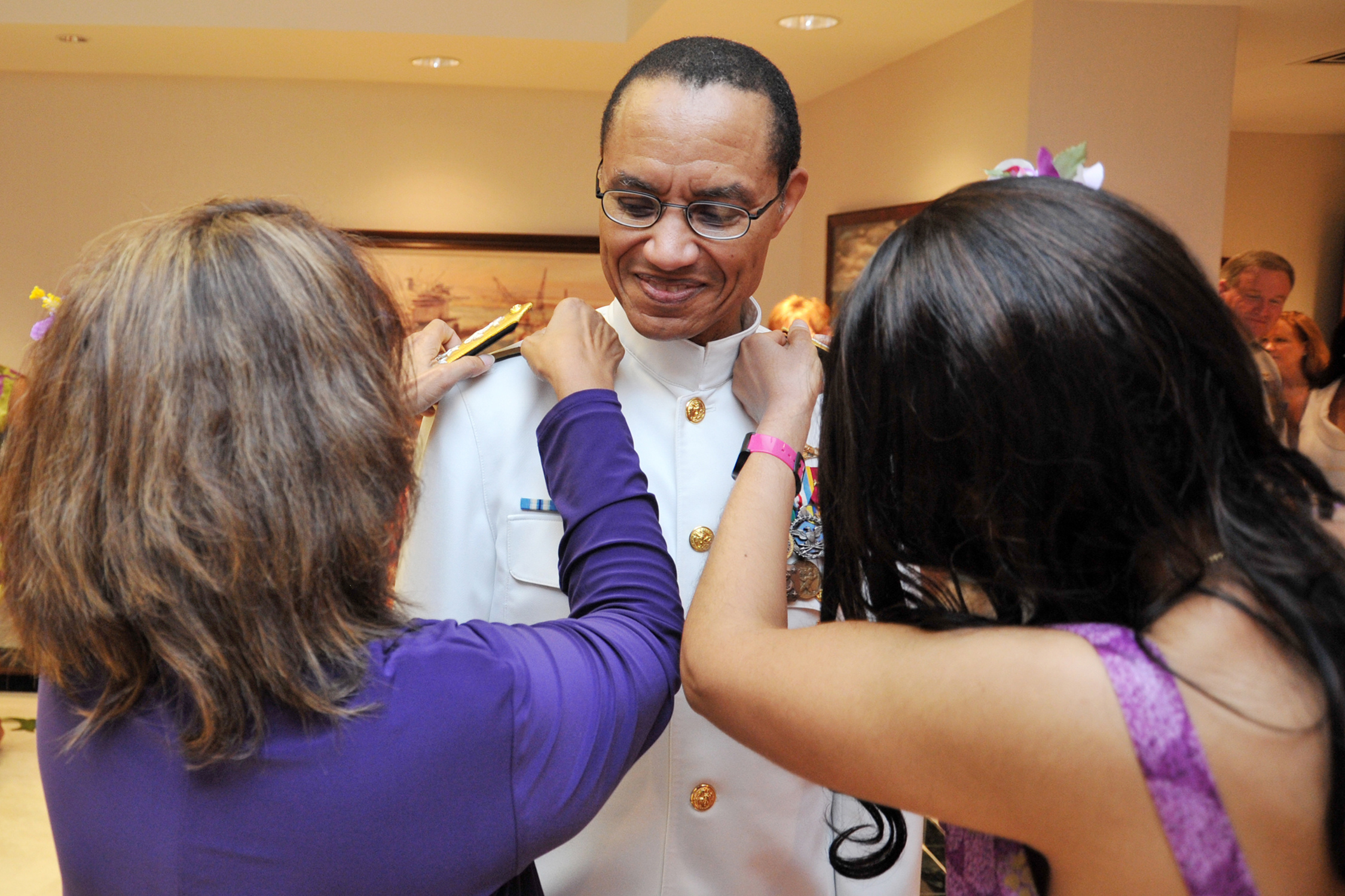 PEARL HARBOR (Jan. 20, 2012) Adm. Cecil Haney has his new shoulder boards placed on his uniform by his wife and daughter. Haney was promoted to the rank of admiral by Chief of Naval Operations (CNO) Adm. Jonathan Greenert before a ceremony during which Haney assumed command of U.S. Pacific Fleet from Adm. Patrick Walsh. (U.S. Navy photo by Mass Communication Specialist 2nd Class David Kolmel/Released)